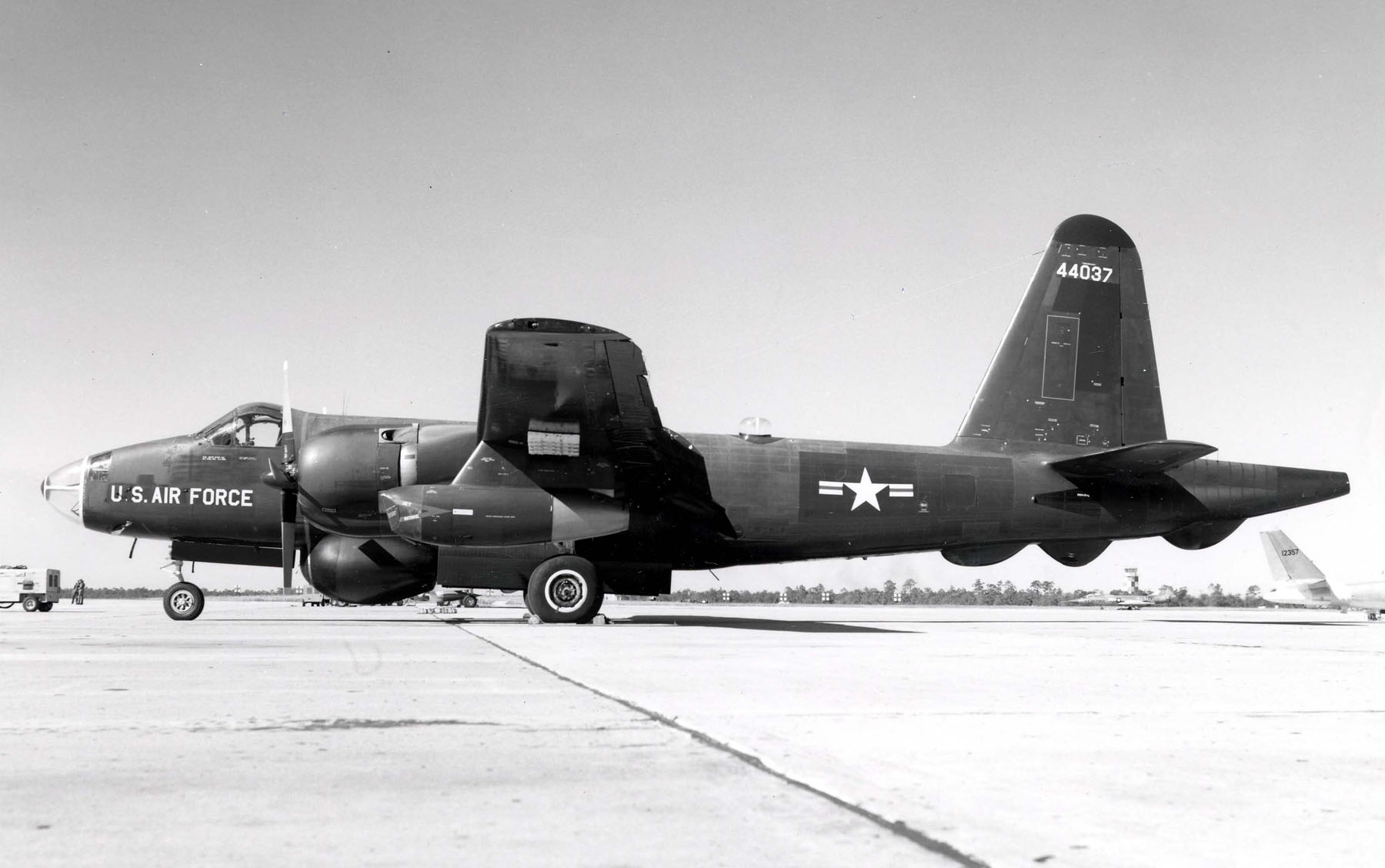 Lockheed RB-69A Neptune side view (S/N 54-4037), the first converted P2V-7U (US Navy BuNo 135612).